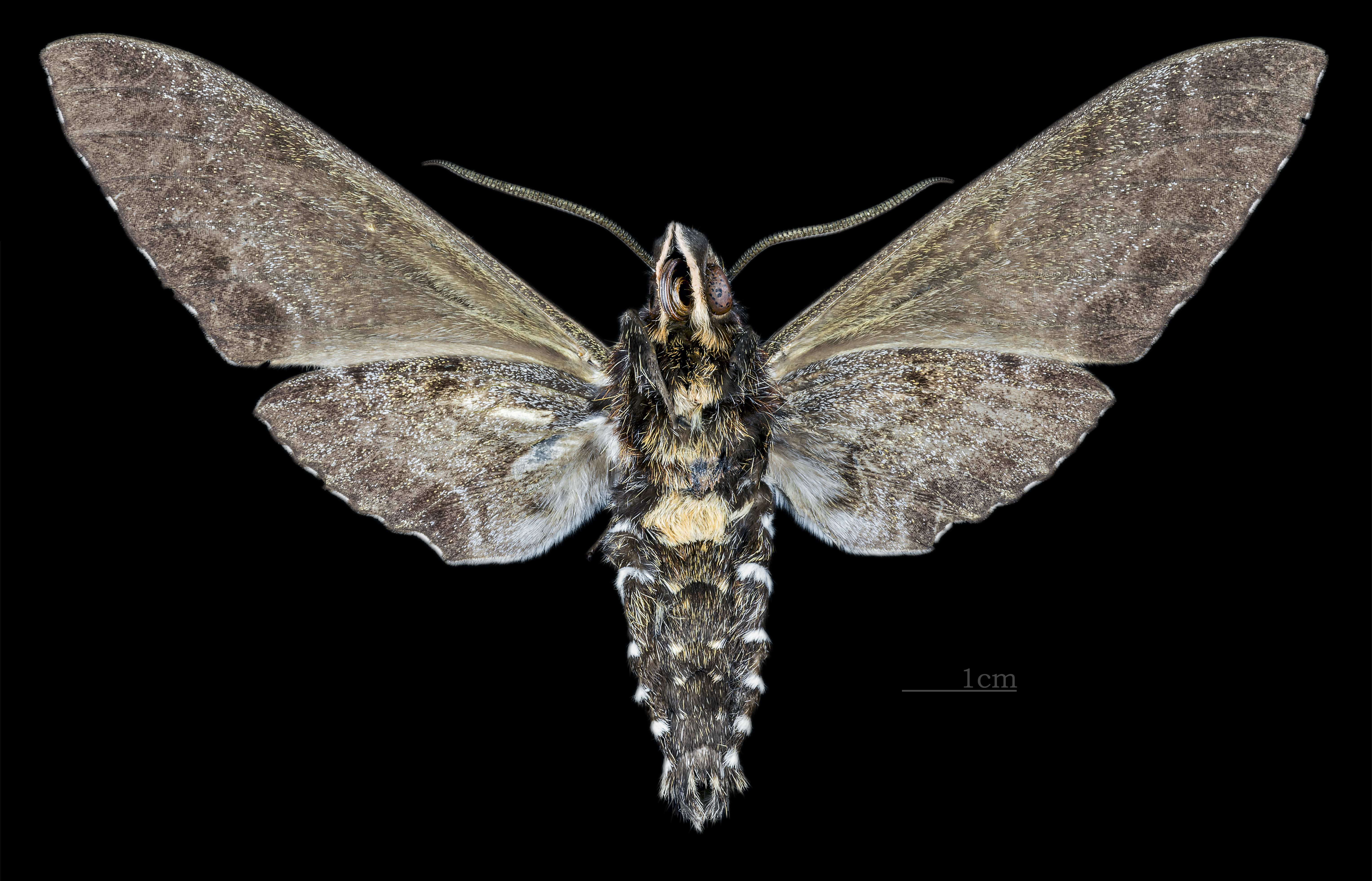 Euryglottis guttiventris - △ Ventral side Collection of the Mathematician Laurent Schwartz